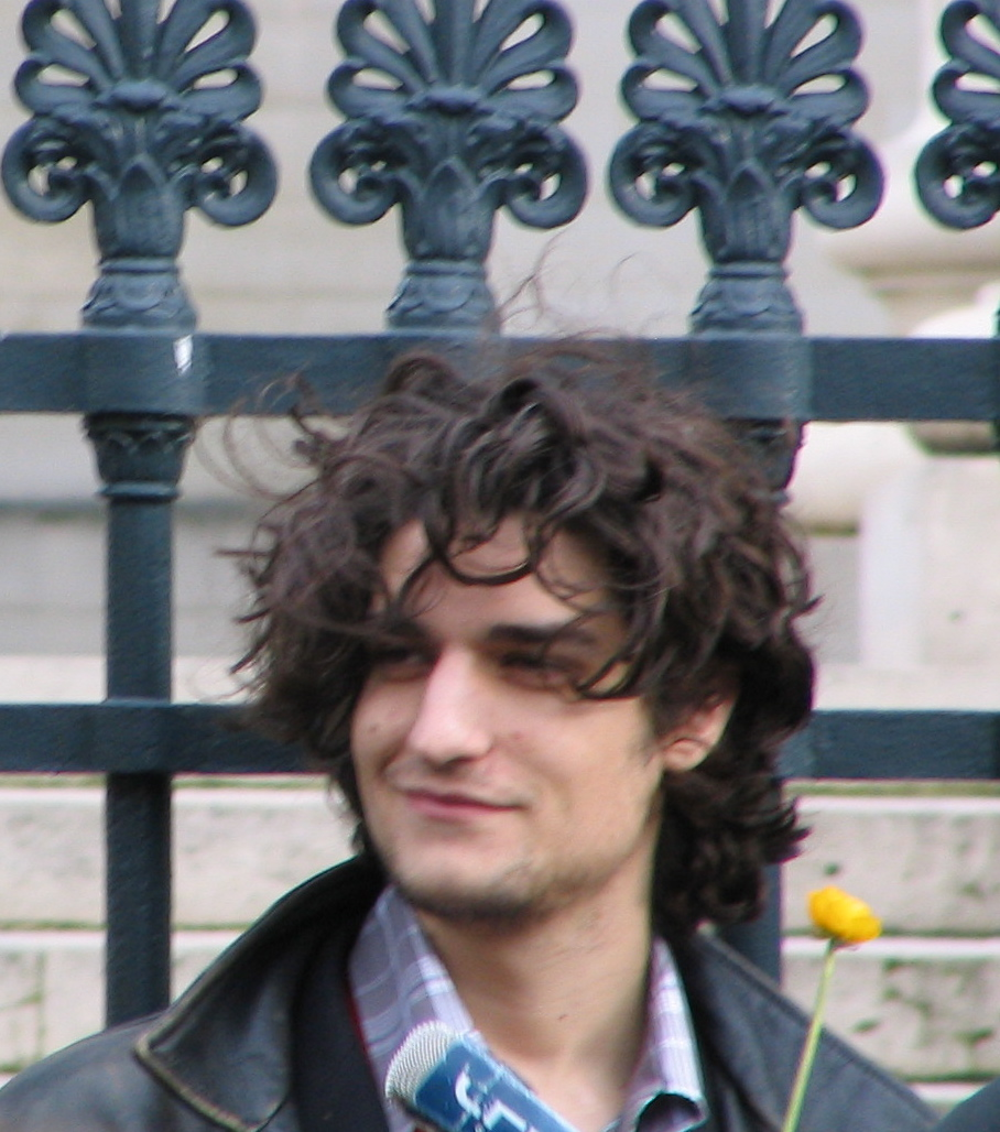 Public reading of "Princesse de Clèves", Paris, place du Panthéon.